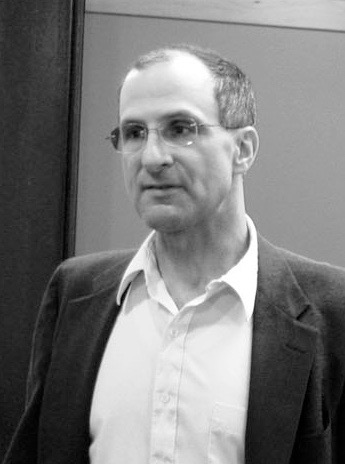 Astronaut Donald Pettit has gone on two space missions He was on campus in late February to talk to students about exploring frontiers. (photo: Theresa Hogue)